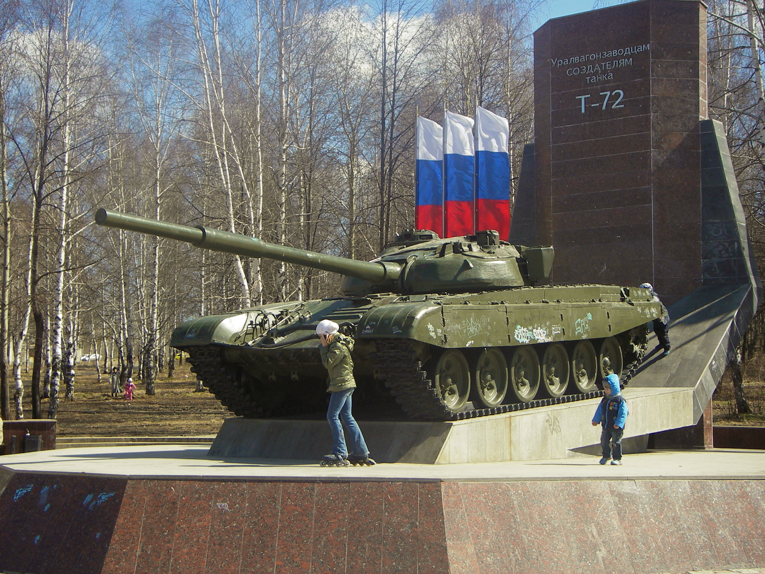 Monument for T-72 Soviet tank located near its production place in Nizhny Tagil, Russia.